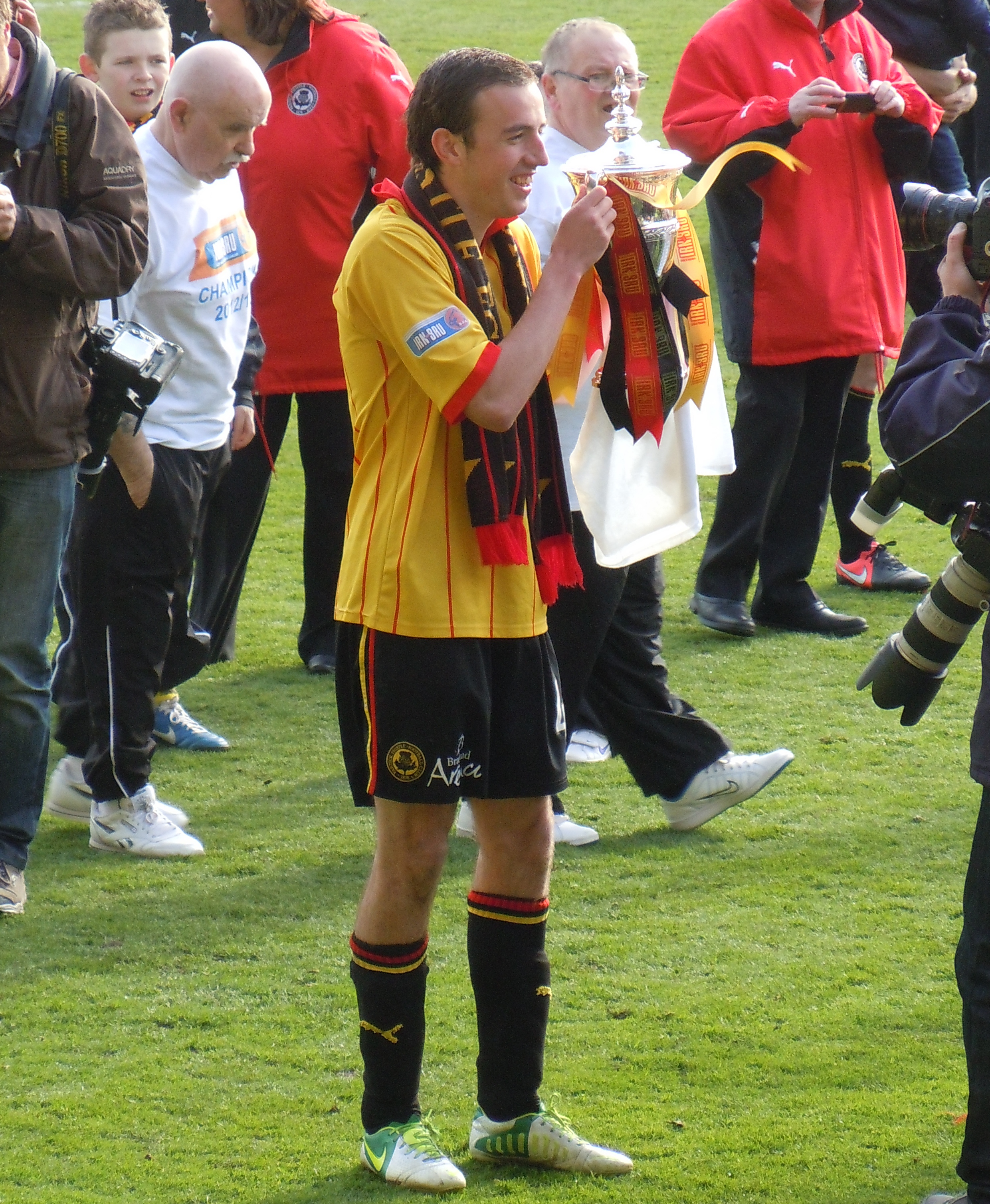 Stuart holding 1st division trophy.